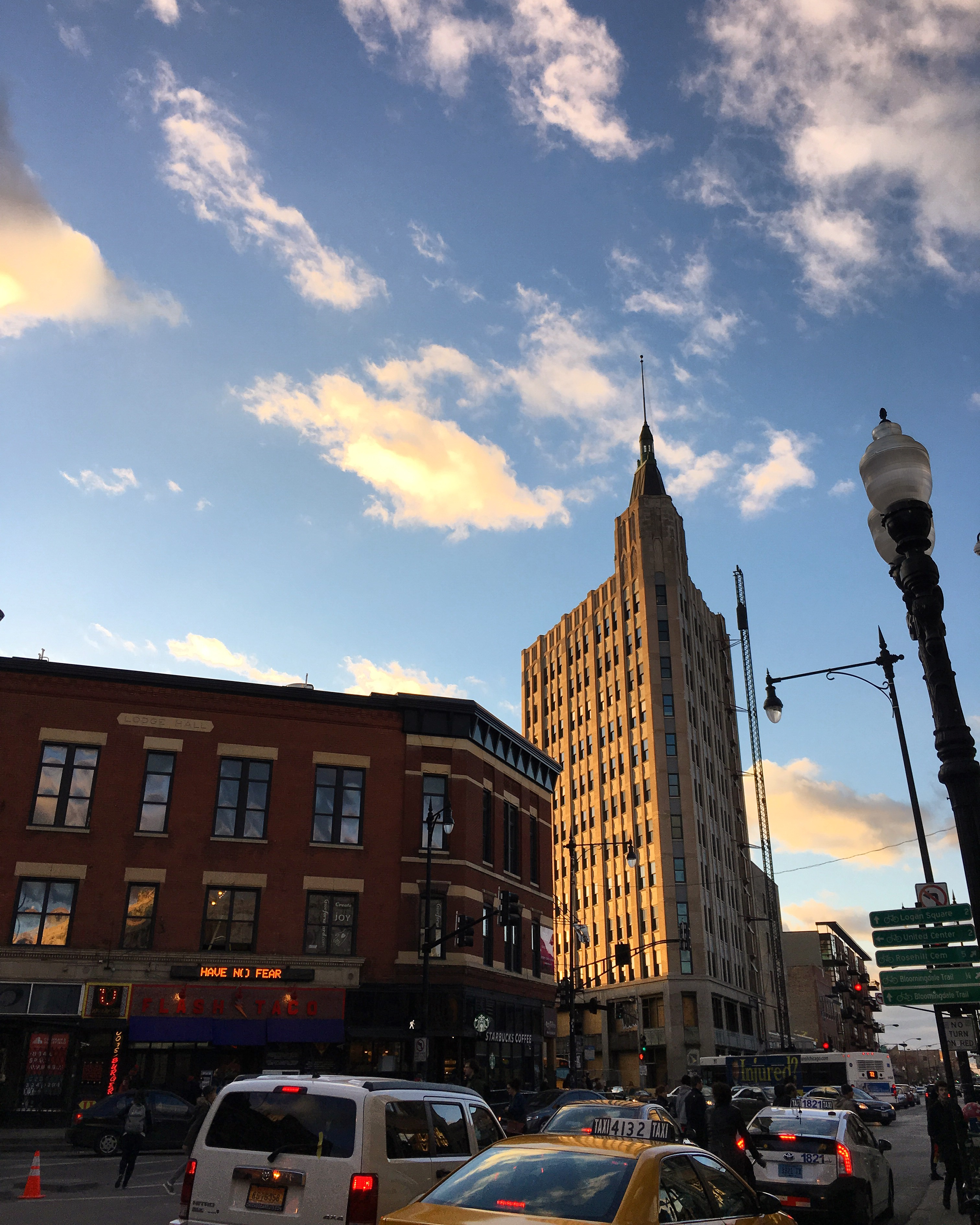 "Six Corners" sunset in Wicker Park, Chicago.